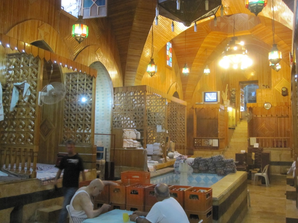 Hammam Al-Nahhaseen in Aleppo